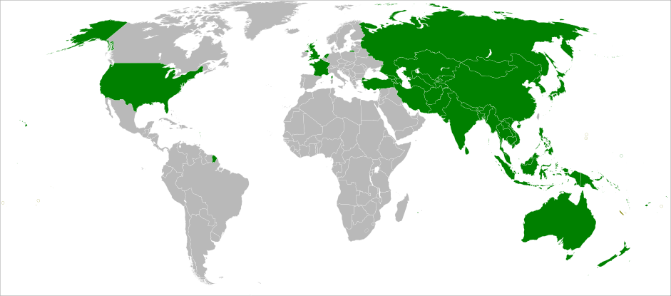 UNESCAP member states and associate members (brown)